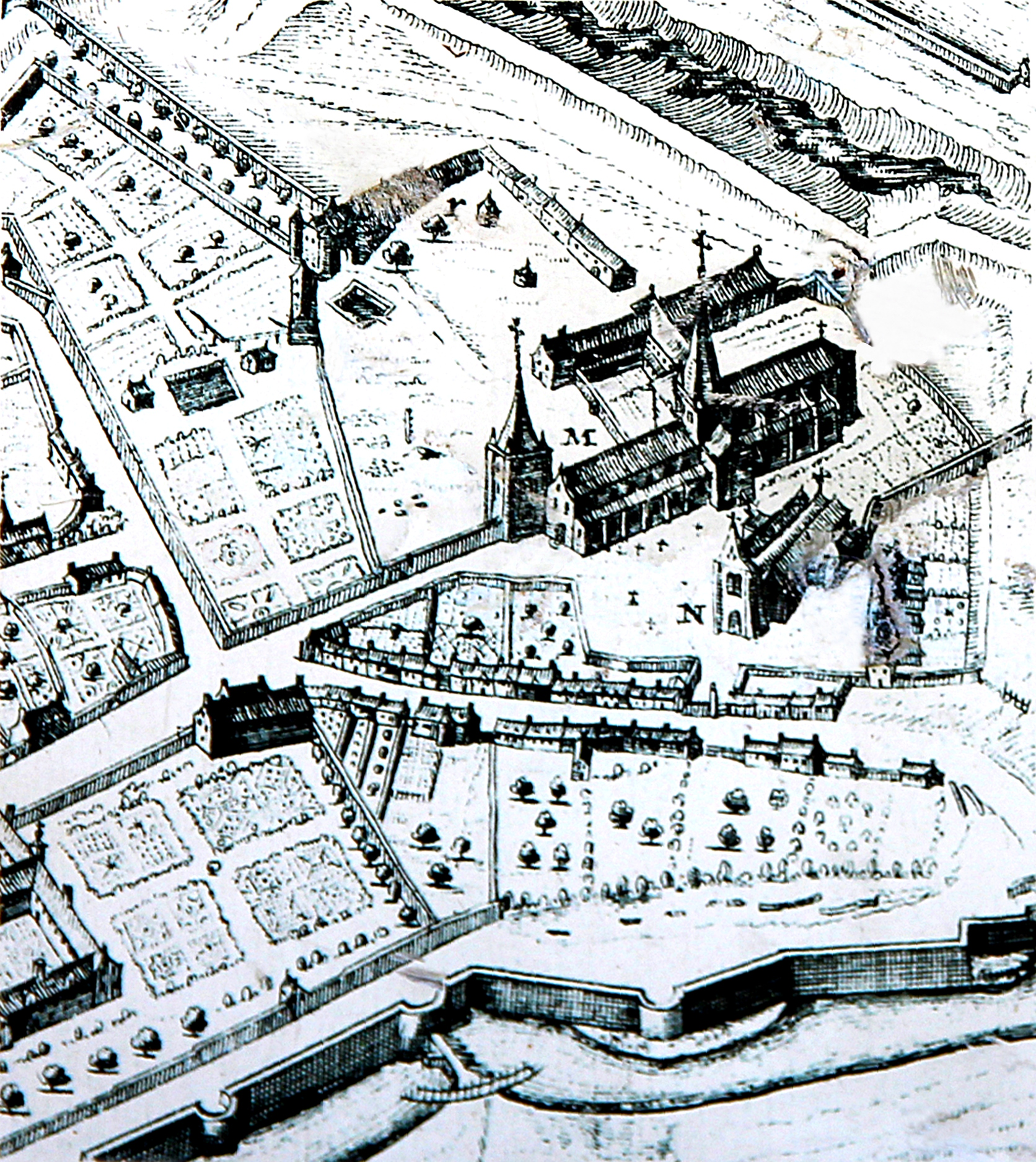 Engraving of the old abbey of Saint-Winoc de Bergues (around 1635) produced by Jacques De La Fontaine.